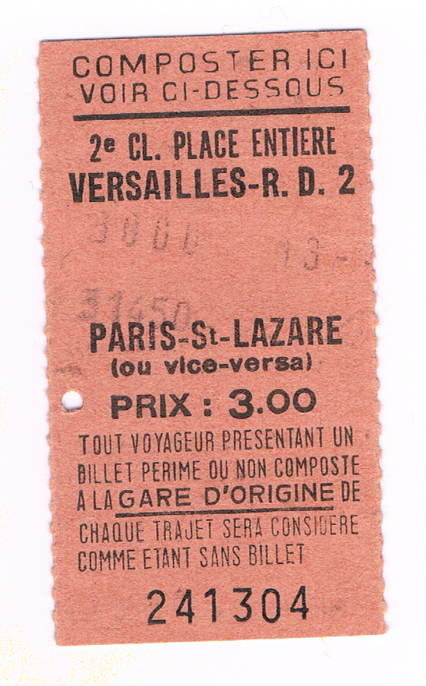 A railway ticket from Paris to Versailles. Year 1977.